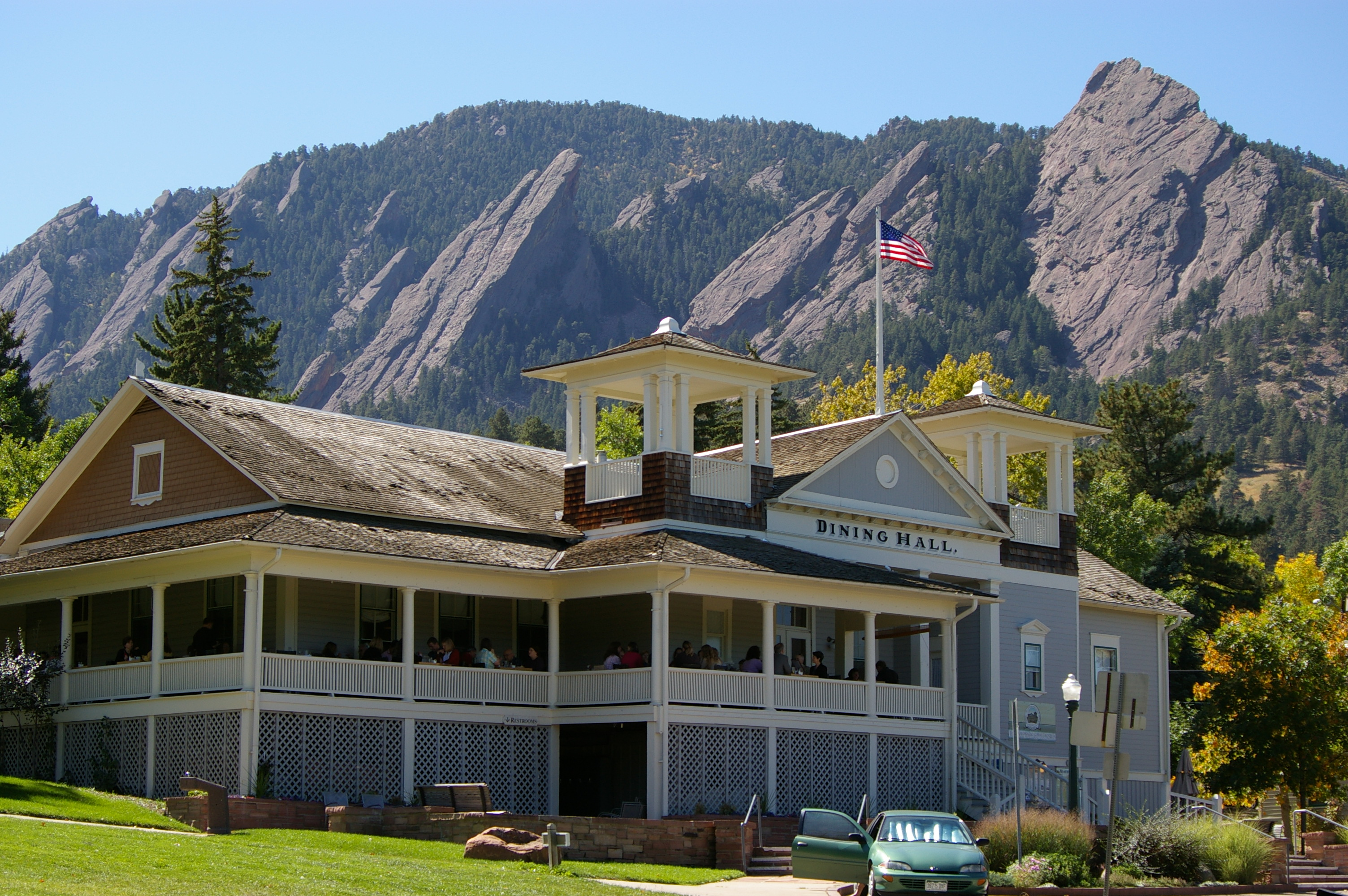 The Dining hall in Chautaqua Park in Boulder, with the Flatirons rock formations behind it.